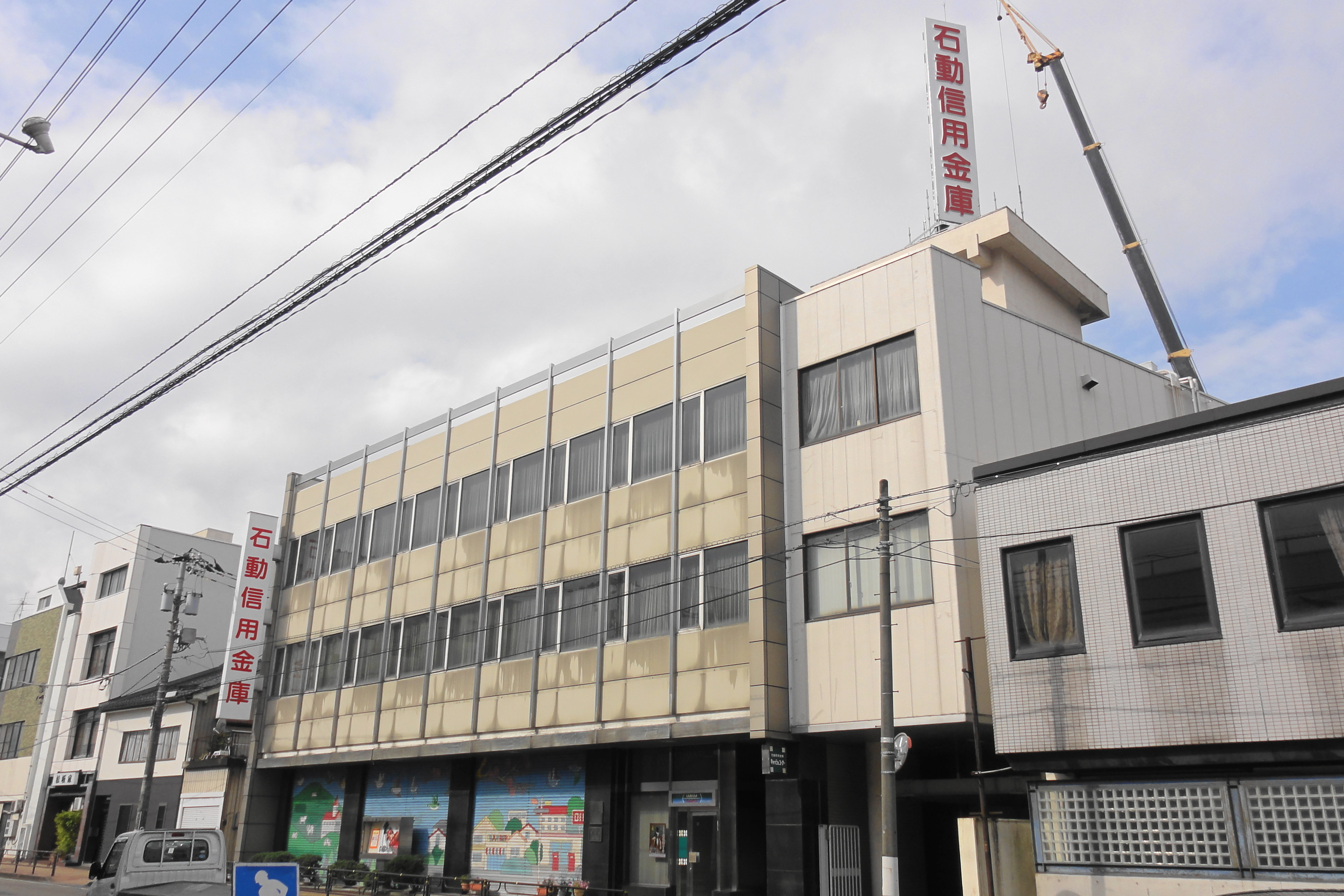 Isurugi shinkin bank(head office),Toyama prefecture, Japan